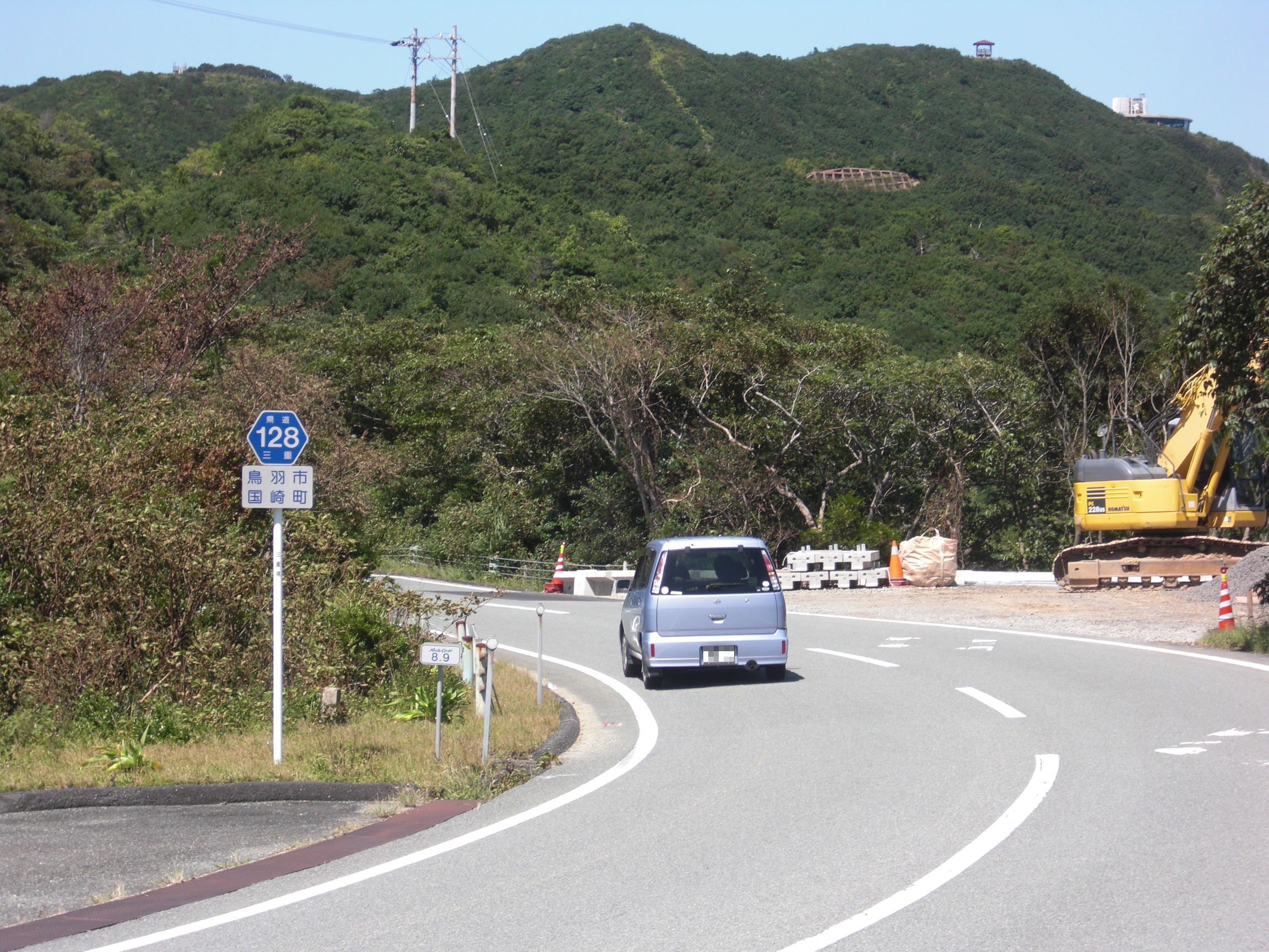 The Mie Prefectural Road Route 128 (Toba Ago Line, aka Pearl Road) in Kuzakicho, Toba City